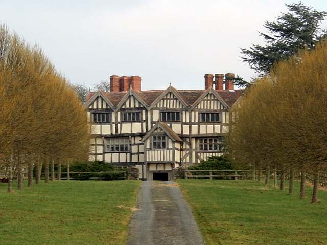 Preston Court Preston Court is a very fine Elizabethan Manor.